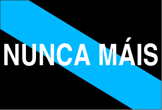 Flag of the movement "Never Again" - NUNCA MÁIS